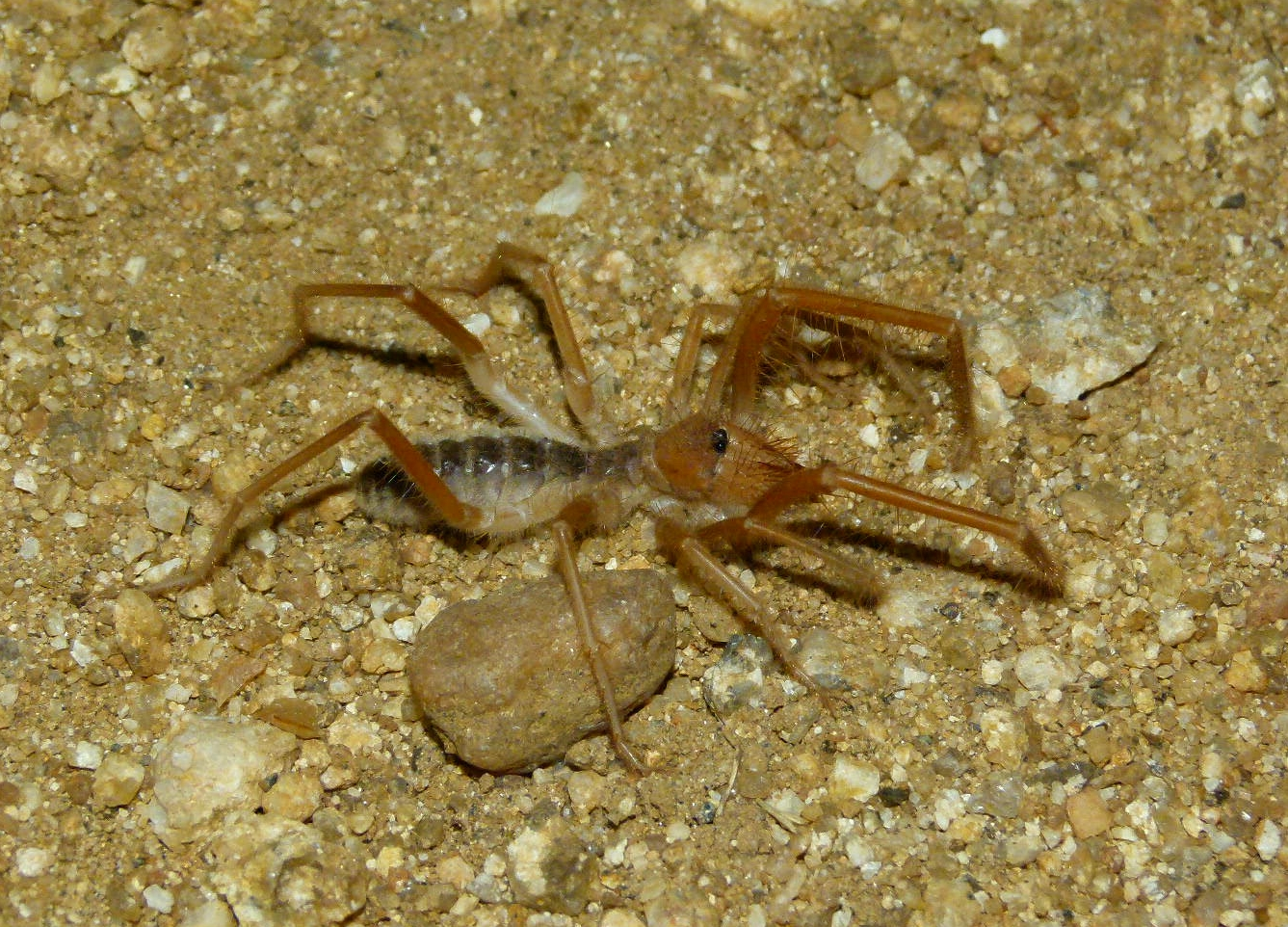 Unidentified Solifugid, (Male Galeodes sp. - determination courtesy of Warren Savary from photograph) Daroji wildlife sanctuary, India